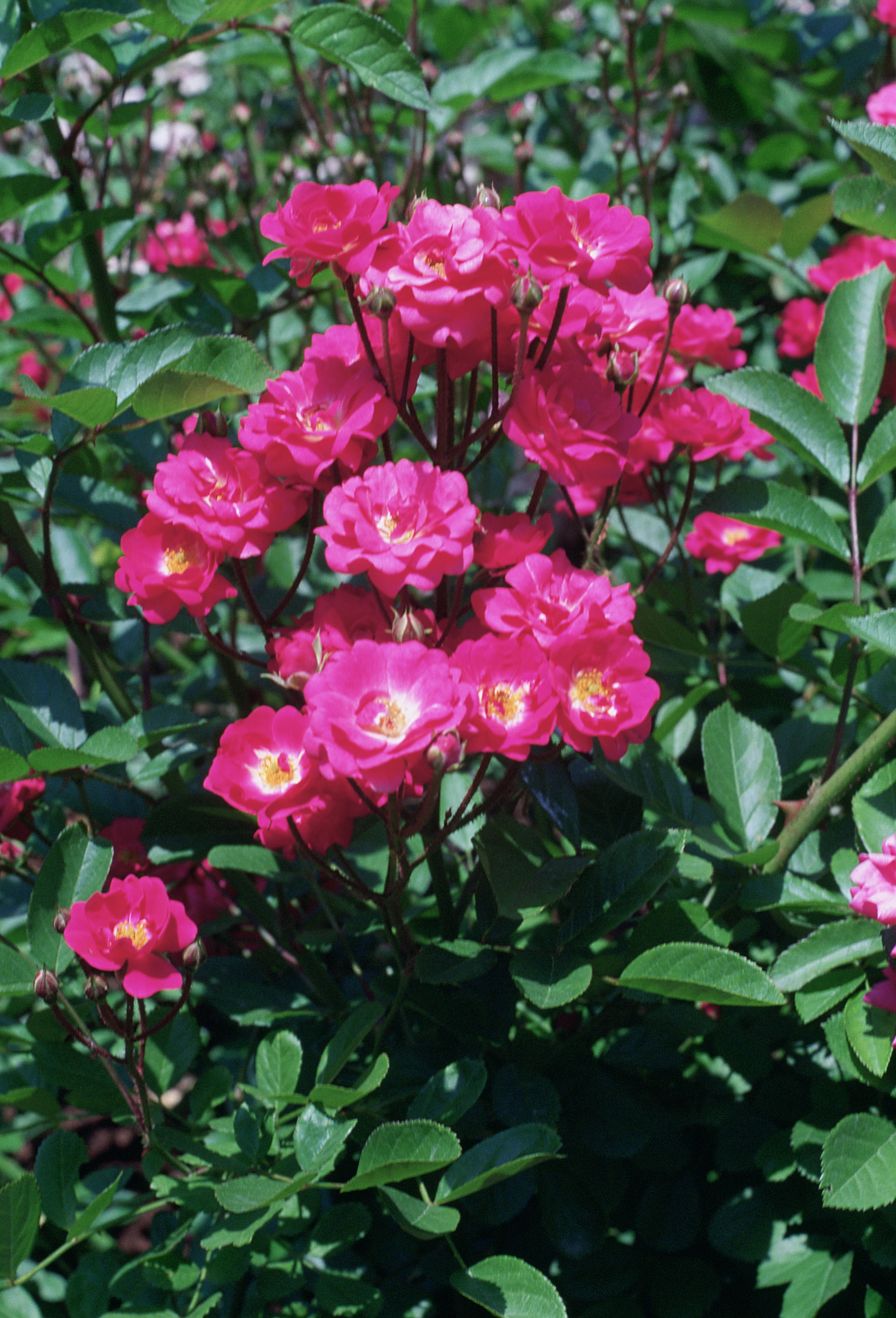 Rosa 'Mme Norbert Levavasseur, gr. Polyanthas, sect. Synstylae. Real Jardín Botánico, Madrid